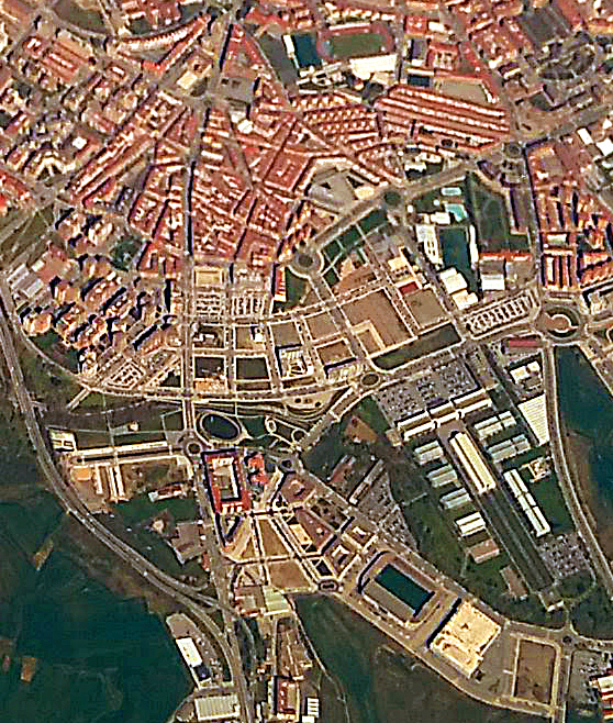 Aranzadi, Iruñea-Pamplona, Nafarroa, Basque Country